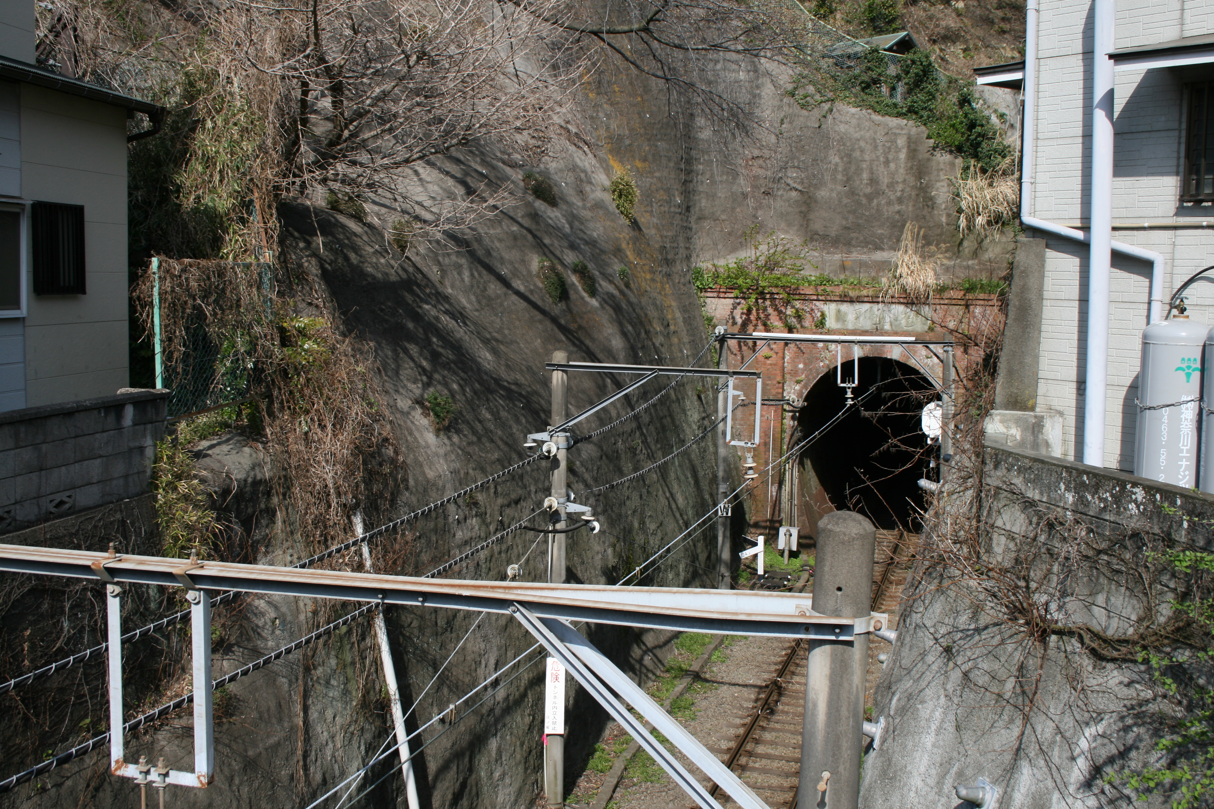 Gokurakudo, a brick rail tunnel on the Enoshima Electric Railway near Gokurakuji Station. Seen from Sakurabashi Bridge.